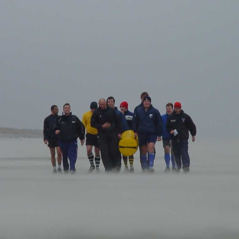 The Dutch rugby team (as in Jan. 2008) (presumably).